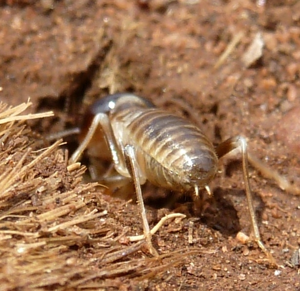 Harvester termite of the worker cast entering nest, at Schanskop, Pretoria